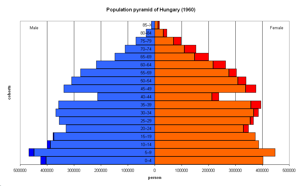 Population pyramid of Hungary (1960)